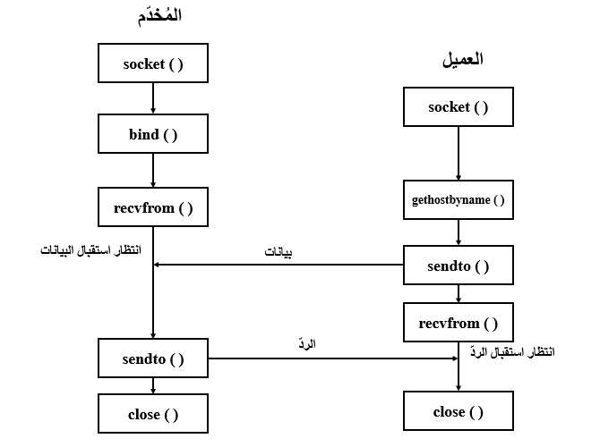 A timeline to show functions sequences when creating a connectionless communication channel using sockets in client/server Model.